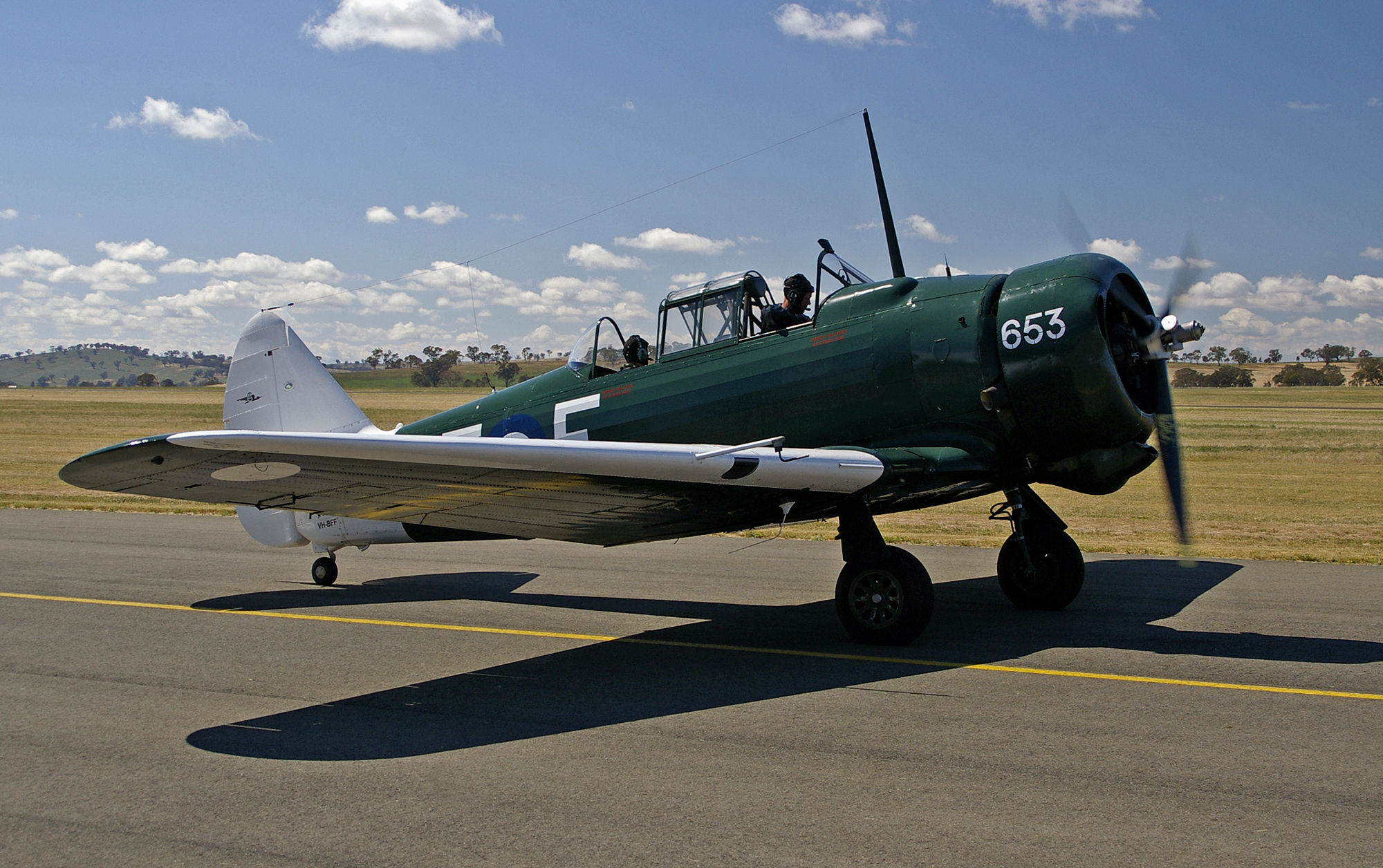 CAC CA-16 Wirraway A20-653 (VH-BFF) currently owned by the Temora Aviation Museum at the RAAF Base Wagga.